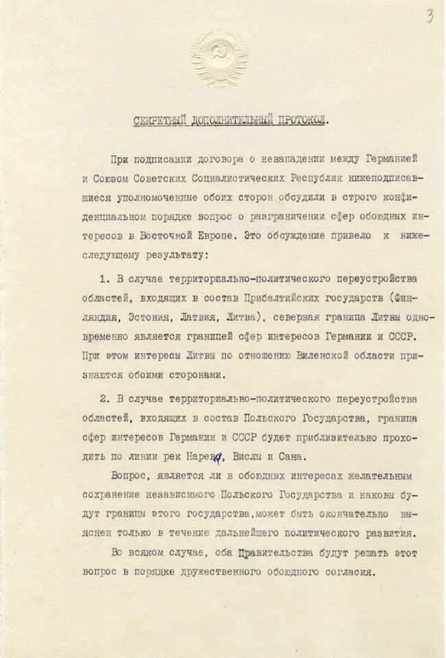 Secret Protocol to Molotov–Ribbentrop Pact Page 1